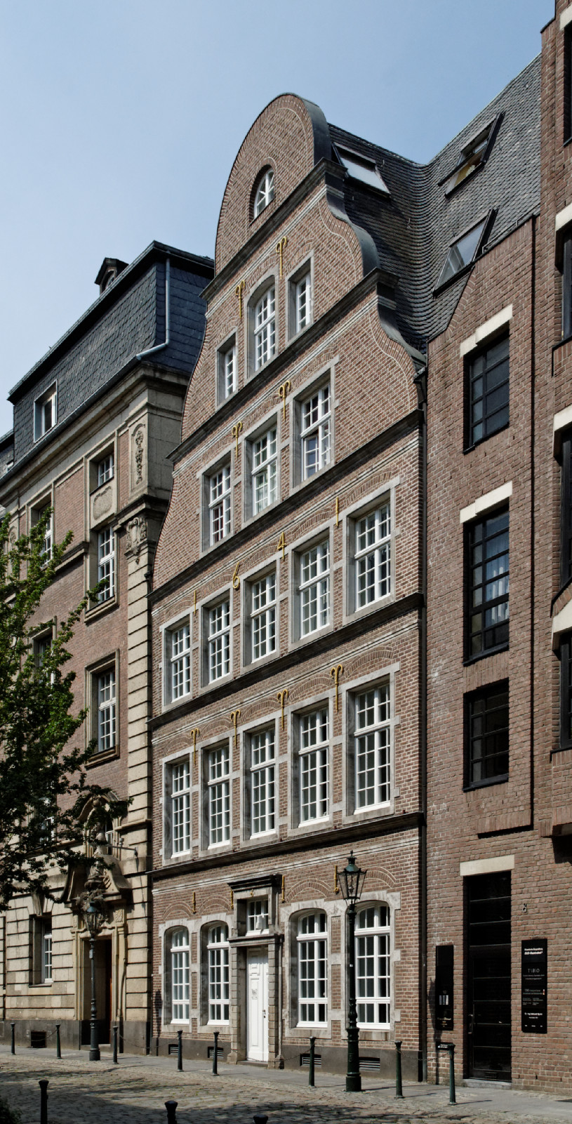 House Altestadt 6 in Düsseldorf-Altstadt, Germany